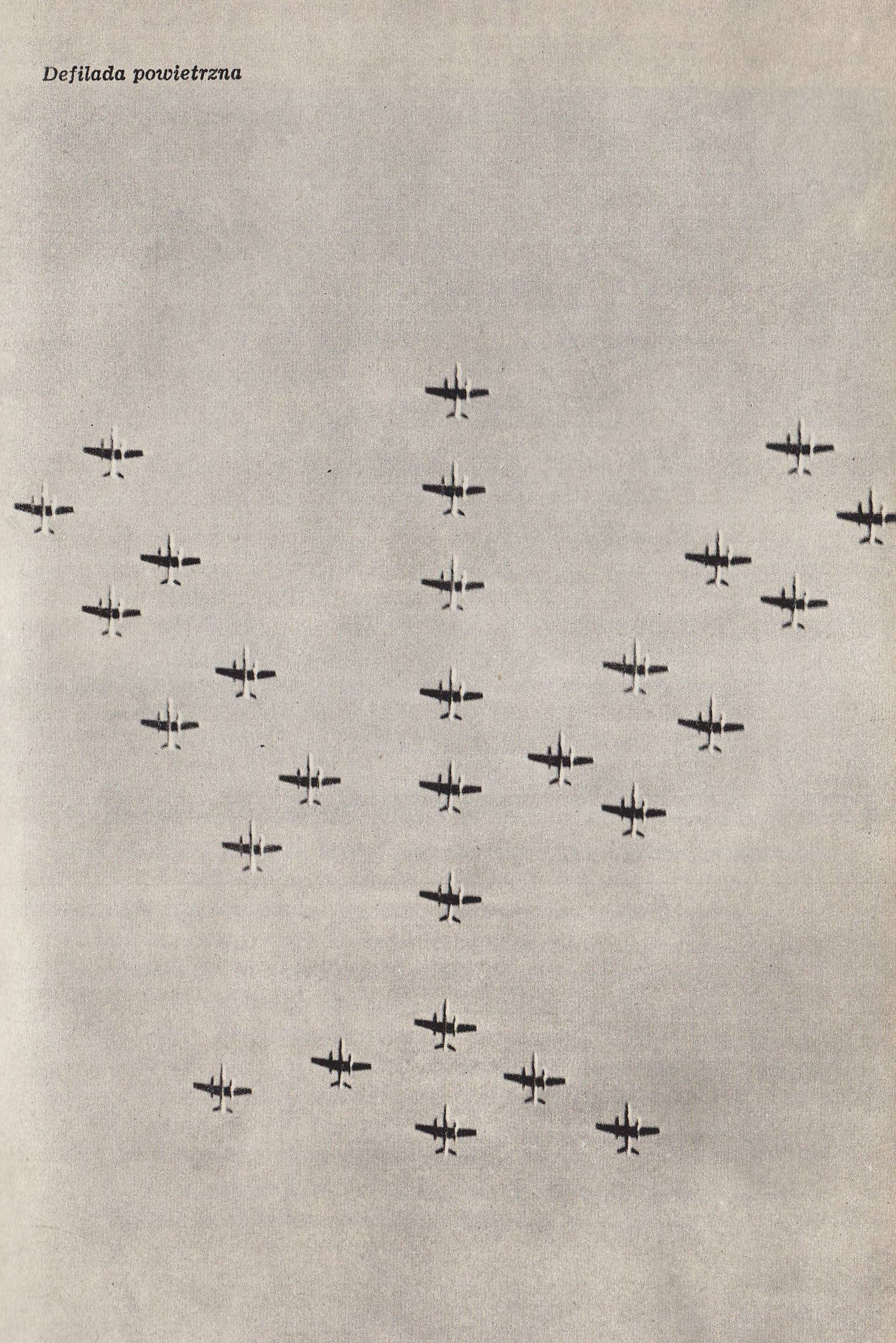 Air parade of Ilyushin Il-28 of Polish Air Force